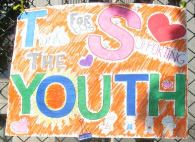 Supporting youth poster made CPC's Walkathon.